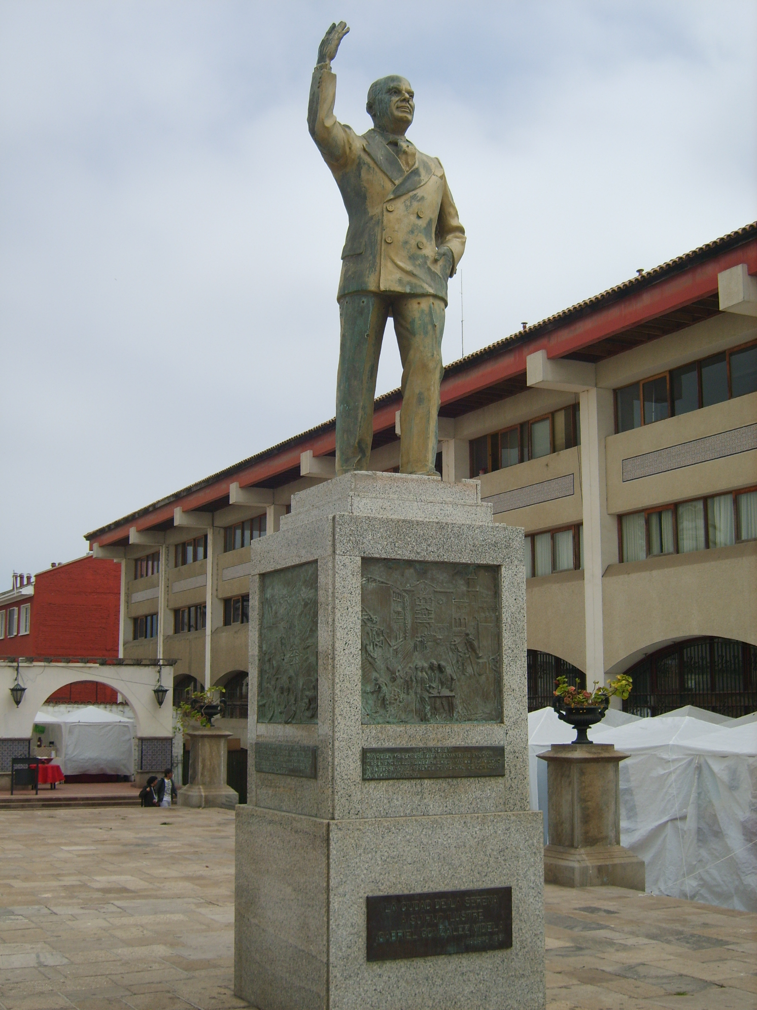 Gabriel González Videla Monument, at the square of the same name in La Serena, Chile.